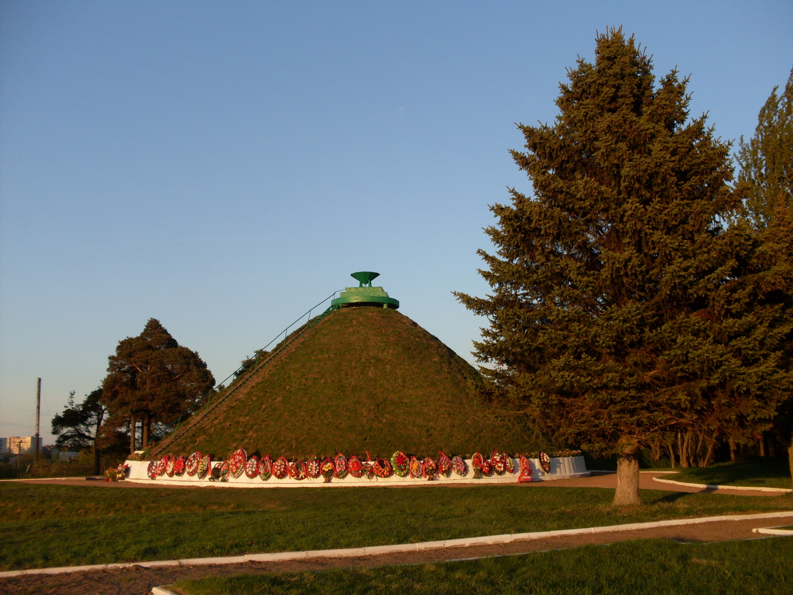 Memorial complex "Mound of Immortality". 1966, Polotsk (Belarus)